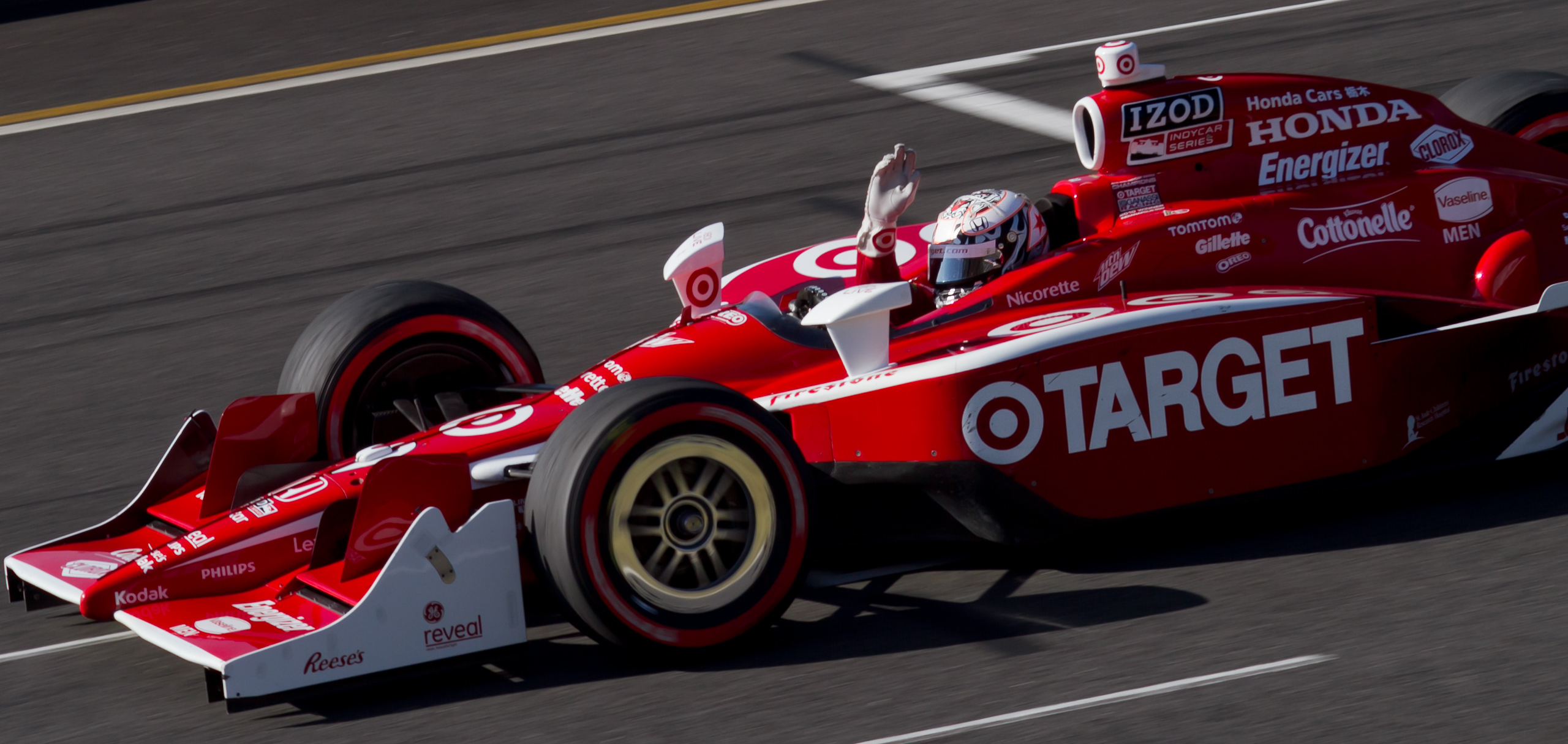 IndyCar Series 2011 Rd.15 Indy Japan 300: Scott Dixon (Chip Ganassi) wins the race.